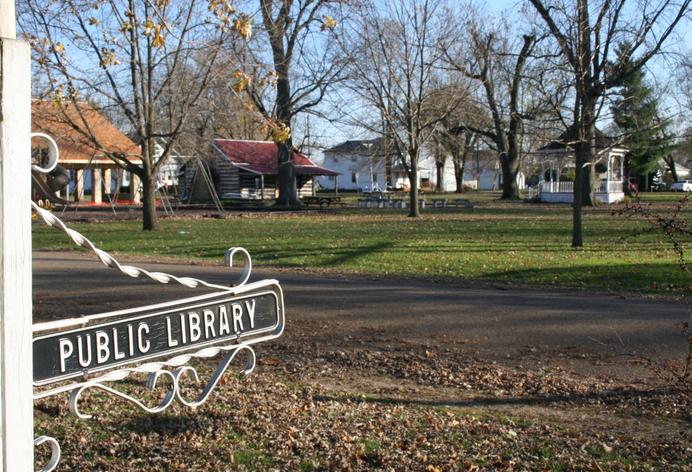 Photo taken from the Birmingham Public Library looking southeast across the central city square with public park and playground area.